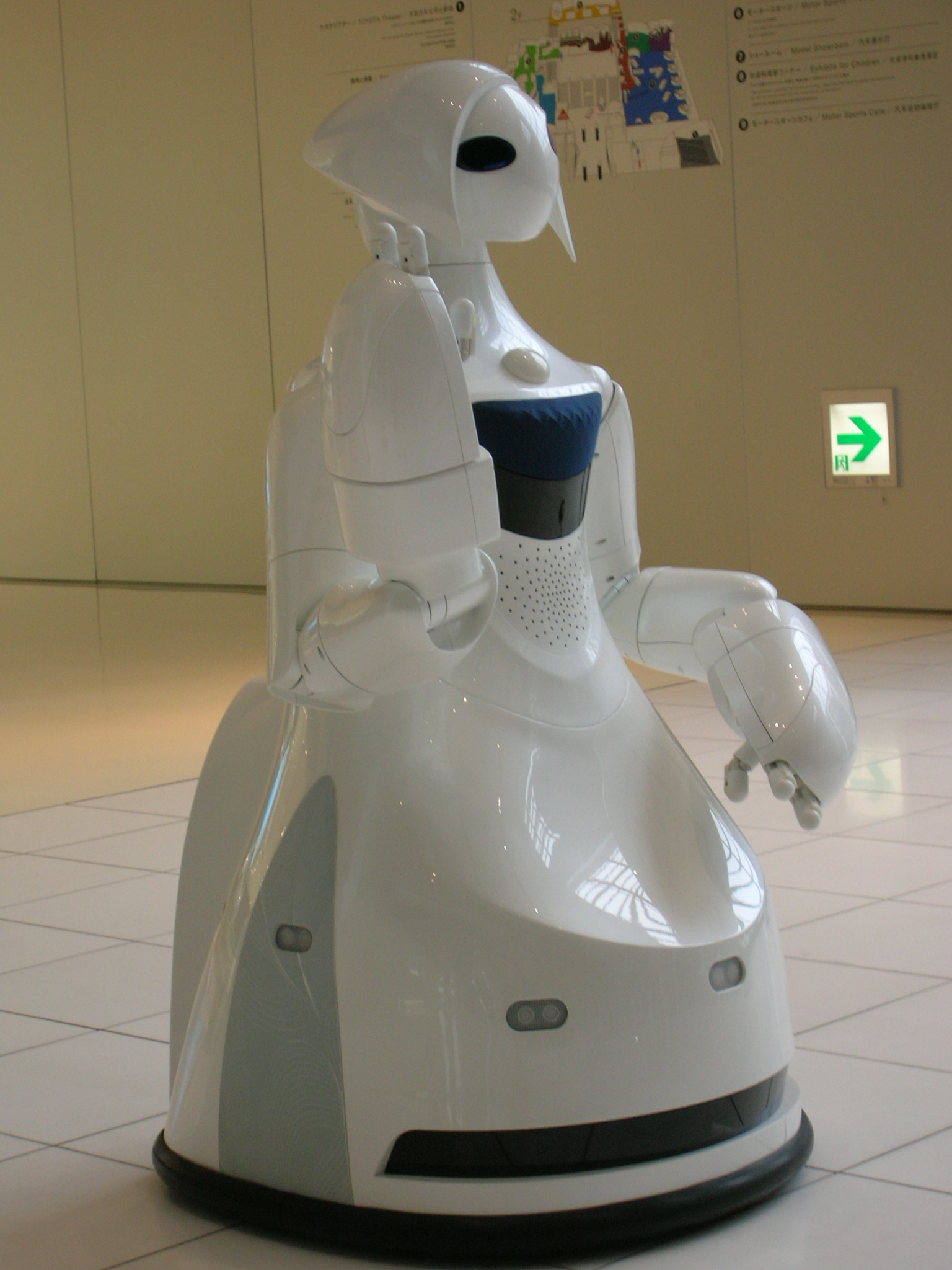 TOYOTA's ROBOT TPR-ROBINA Loc: Toyota Kaikan Exhibition Hall, Toyota City, Aichi Prefecture, Japan トヨタ TPR-ROBINA 撮影場所 トヨタ会館(愛知県豊田市)